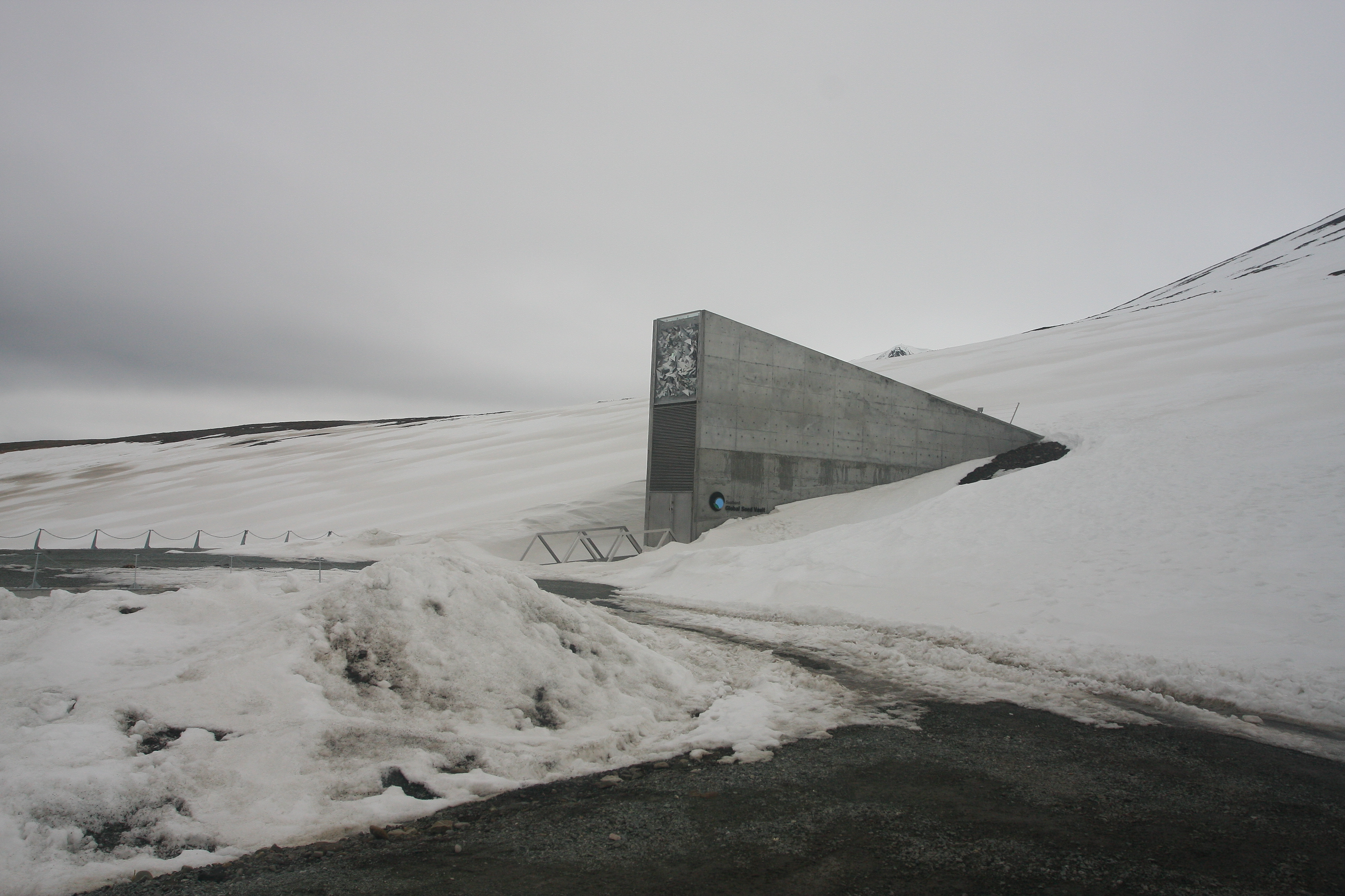 The vault